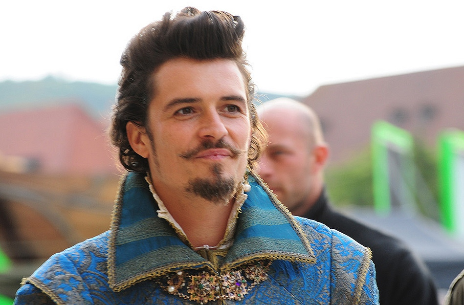 British actor Orlando Bloom at the location filming of The Three Musketeers in Würzburg, Germany.